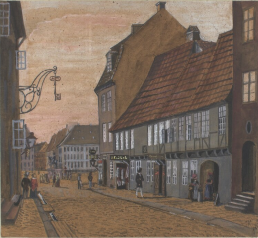 The Grandjean House in Store Strandstræde in Copenhagen, Denmark. Now replaced by a new building of the same name.